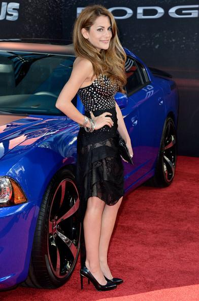 Israeli actress Inbar Lavi in the Fast & Furious 6 premiere